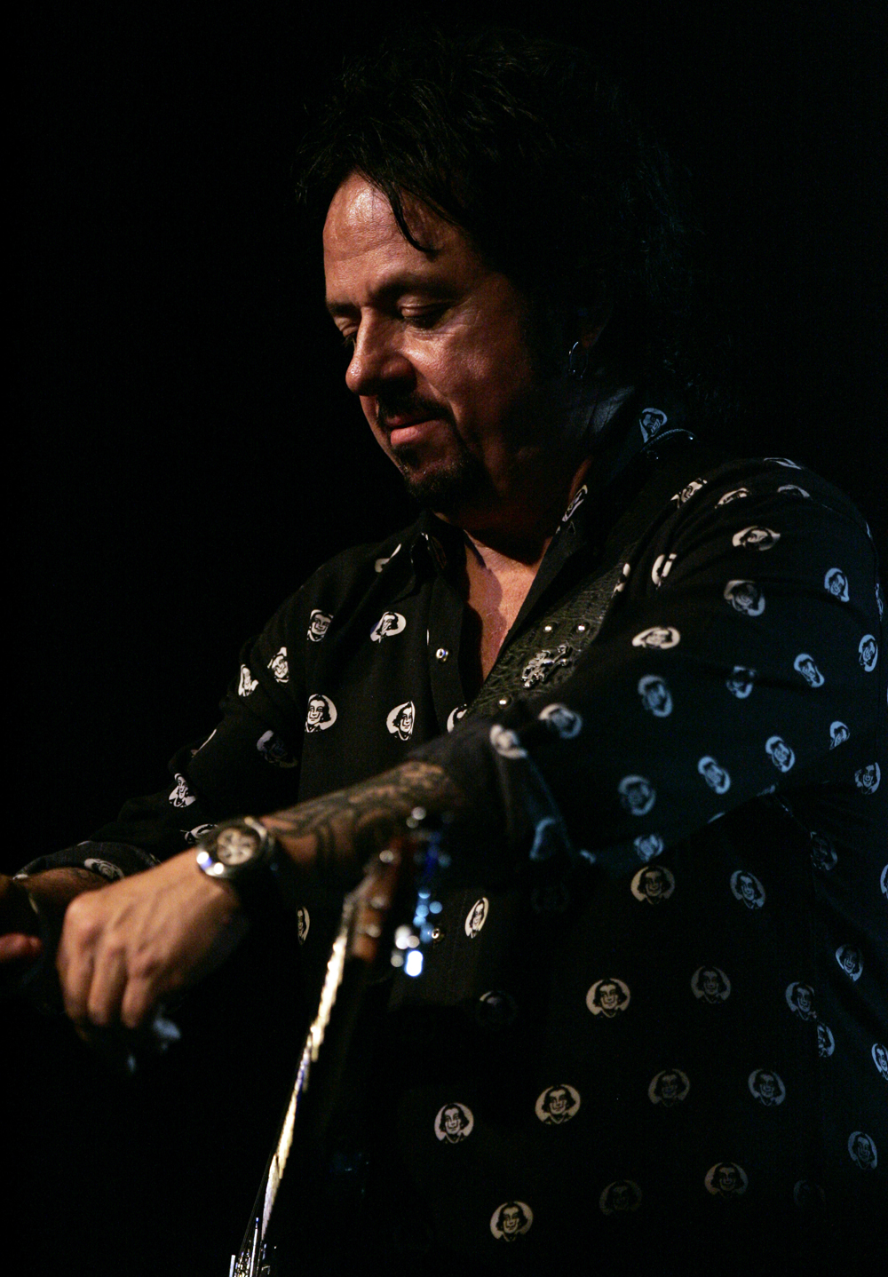 Ringo Starr and his All-Starr Band play the Hordern Pavilion in Sydney, Australia.